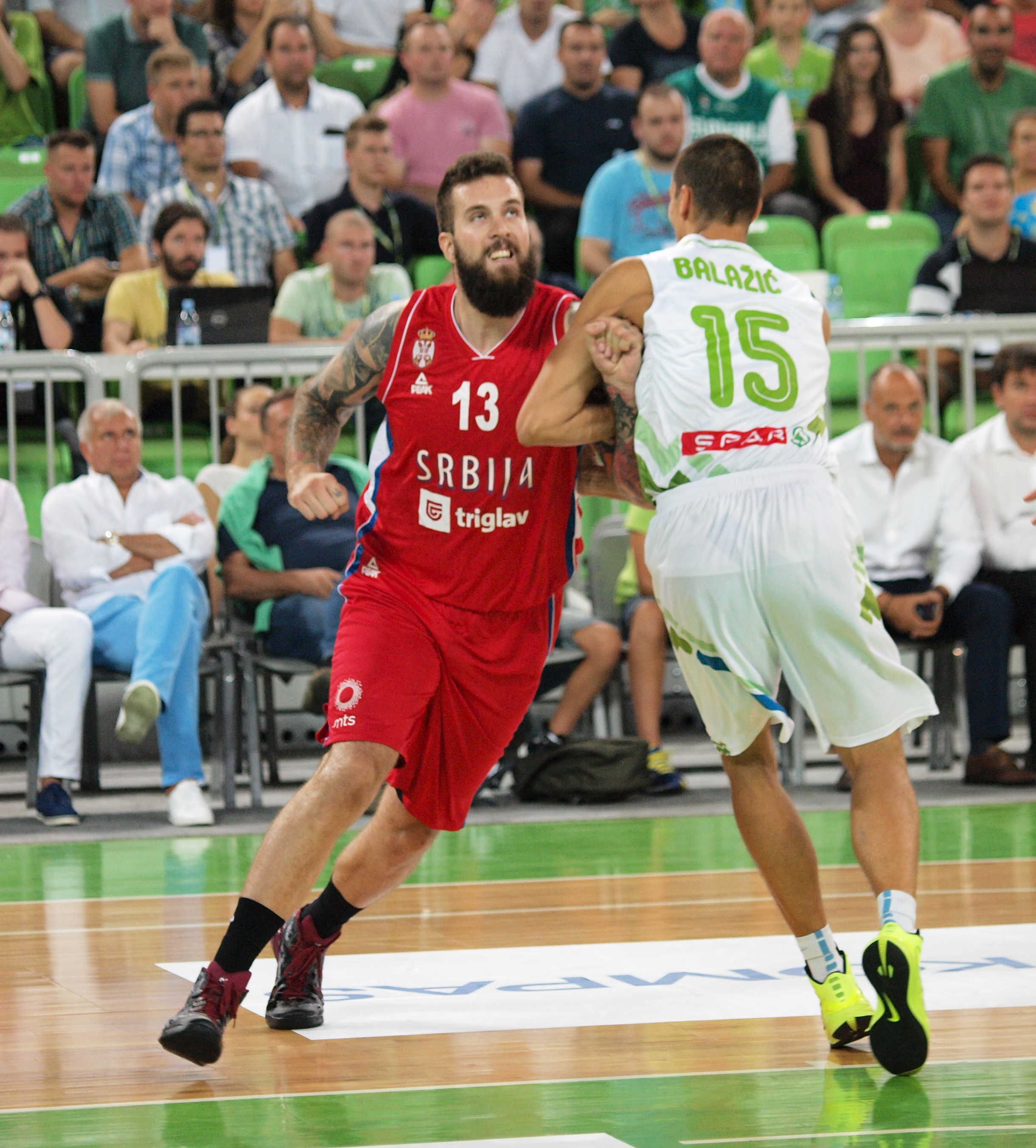 Miroslav Raduljica, battle of two centers.